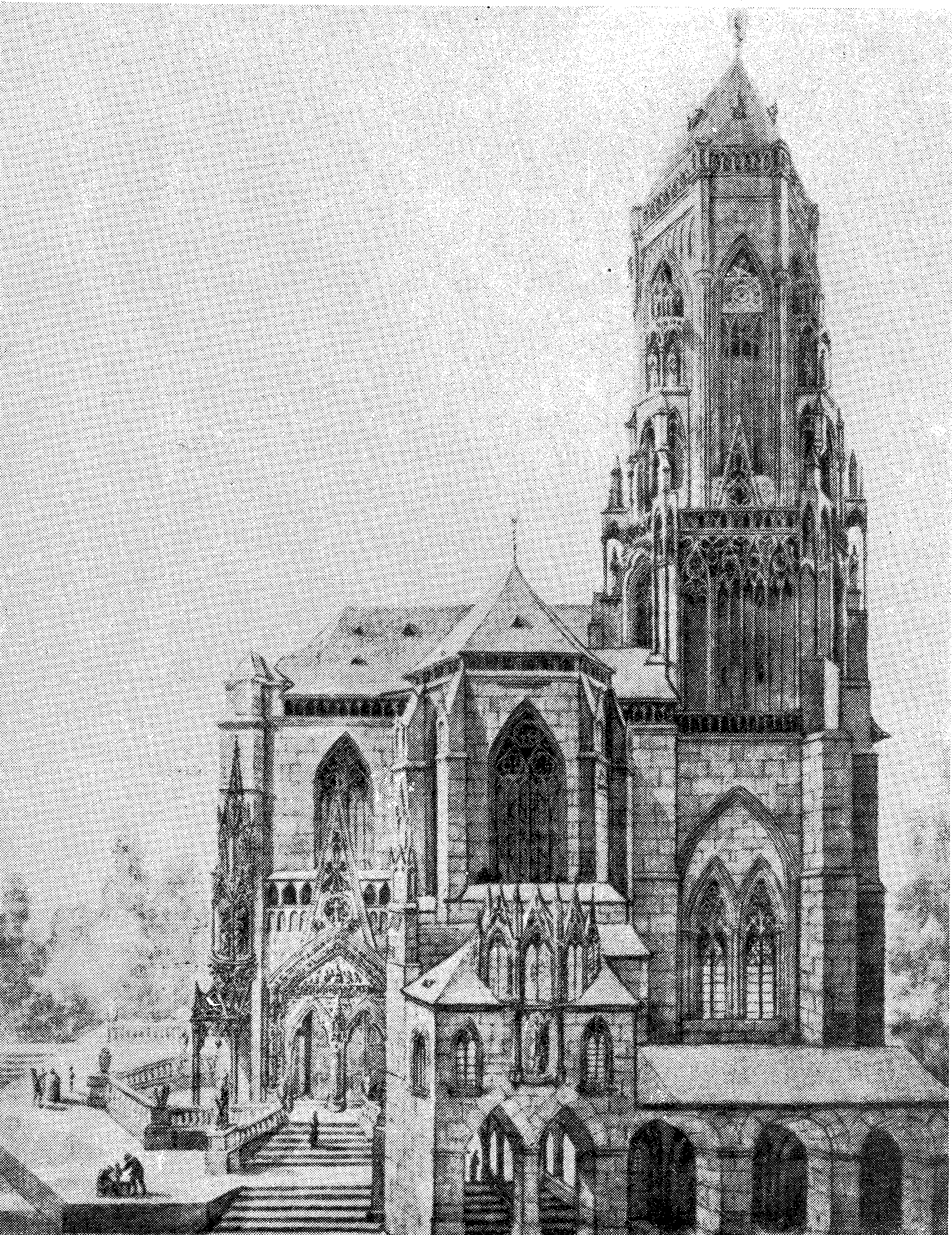 Historical Collegiate Church of St. Maria ad gradus